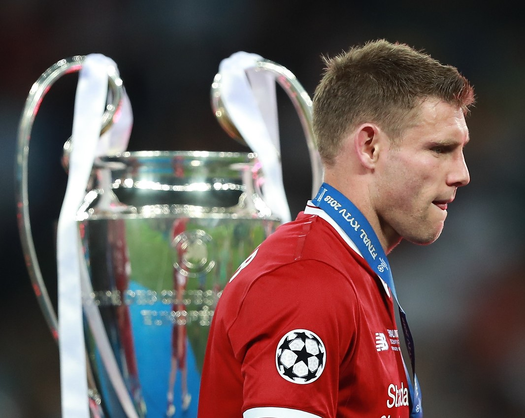 James Milner